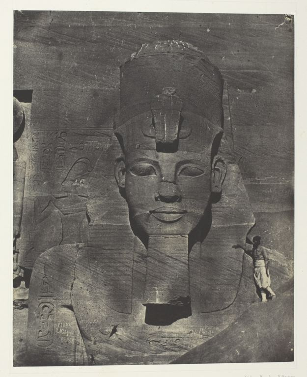 Maxime Du Camp French, 1822-1894 Ibsamboul, Colosse Médial (Enfoui) du Spéos de Phrè Nubie, Palestine et Syrie, 1849/51 Developing-out salted paper print (Blanquart-Evrard's process), from a calotype negative 20.3 x 16.2 cm "Imprimerie Photographique de Blanquard-Evrard, á Lille" printed on page below image Photography Gallery Fund, 1959.608.106